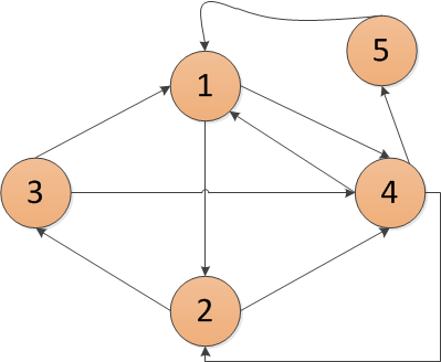 Do thi G